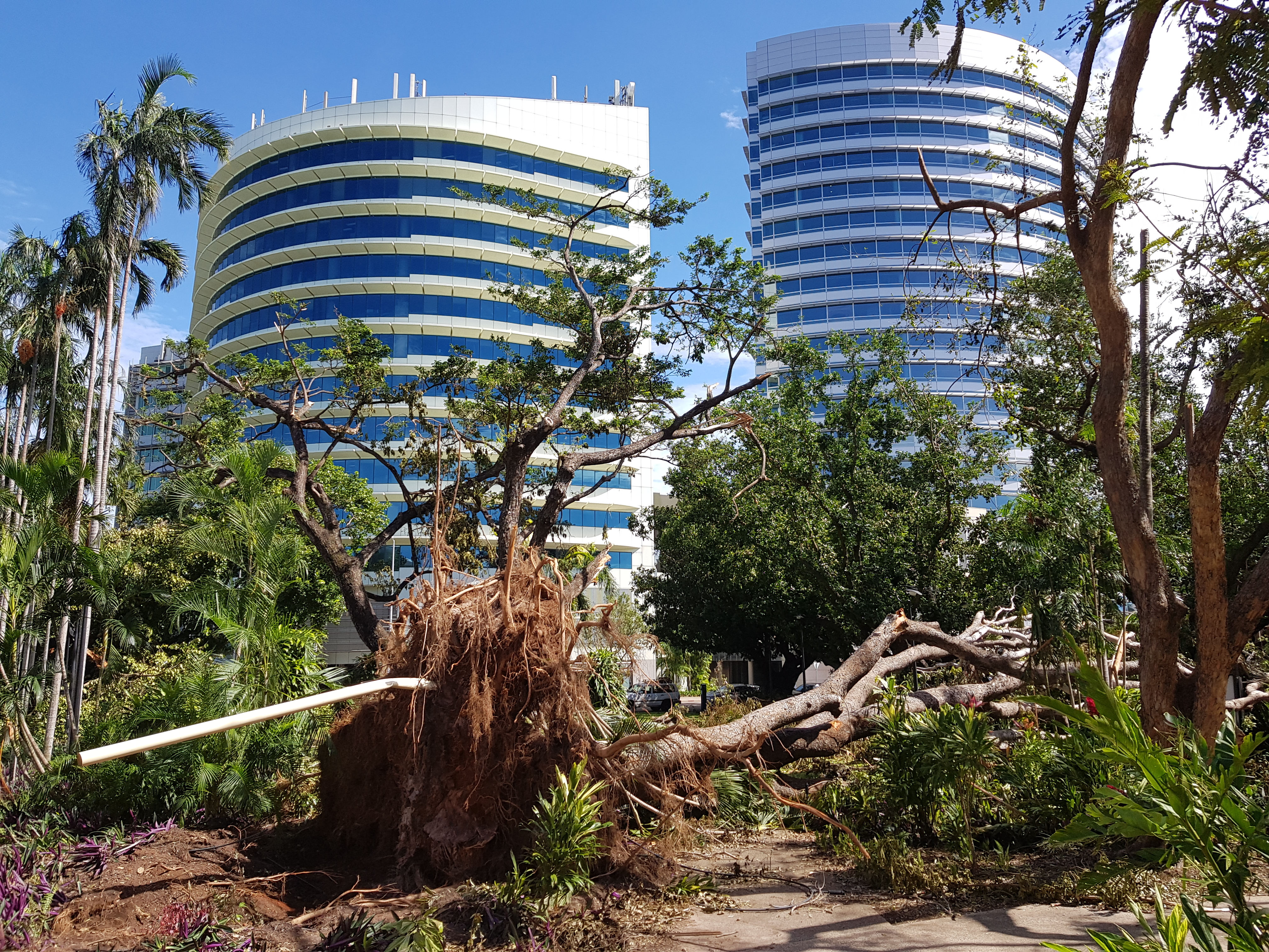 Cyclone Marcus damage in the gardens of State Square in Darwin City.